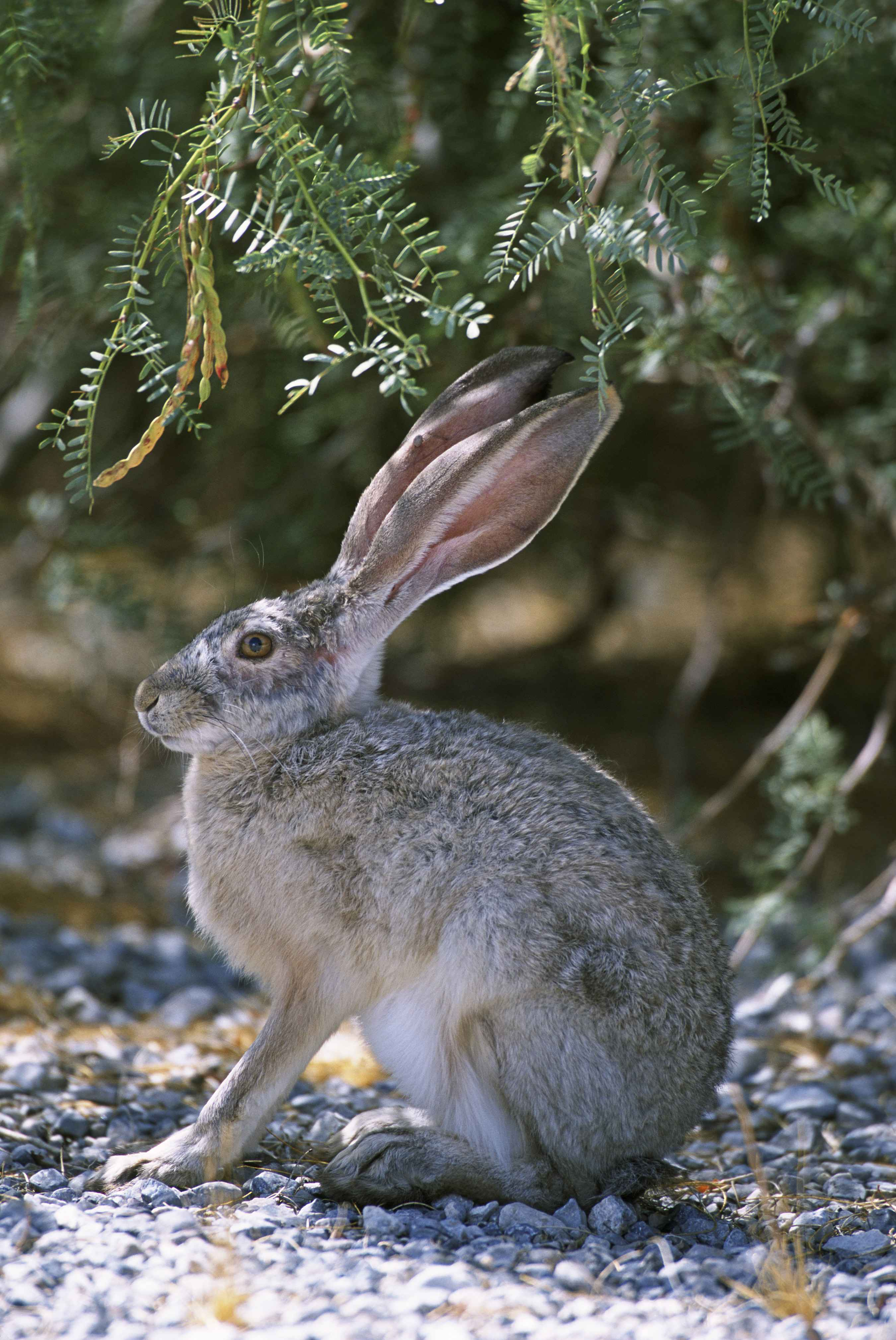 Image title: Side view close up of rabbit sitting on gravel under brush Image from Public domain images website